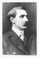 Portrait of Sebastian Ziani de Ferranti.